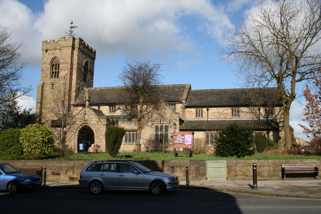 Parish Church of St Bartholomew, Colne, Lancashire This ancient parish church is seen on a sunny morning in March.